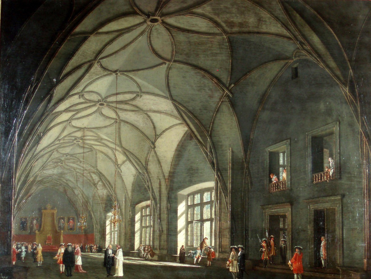 Ludvík Kohl, Vladislav Hall (Vladislavský sál)